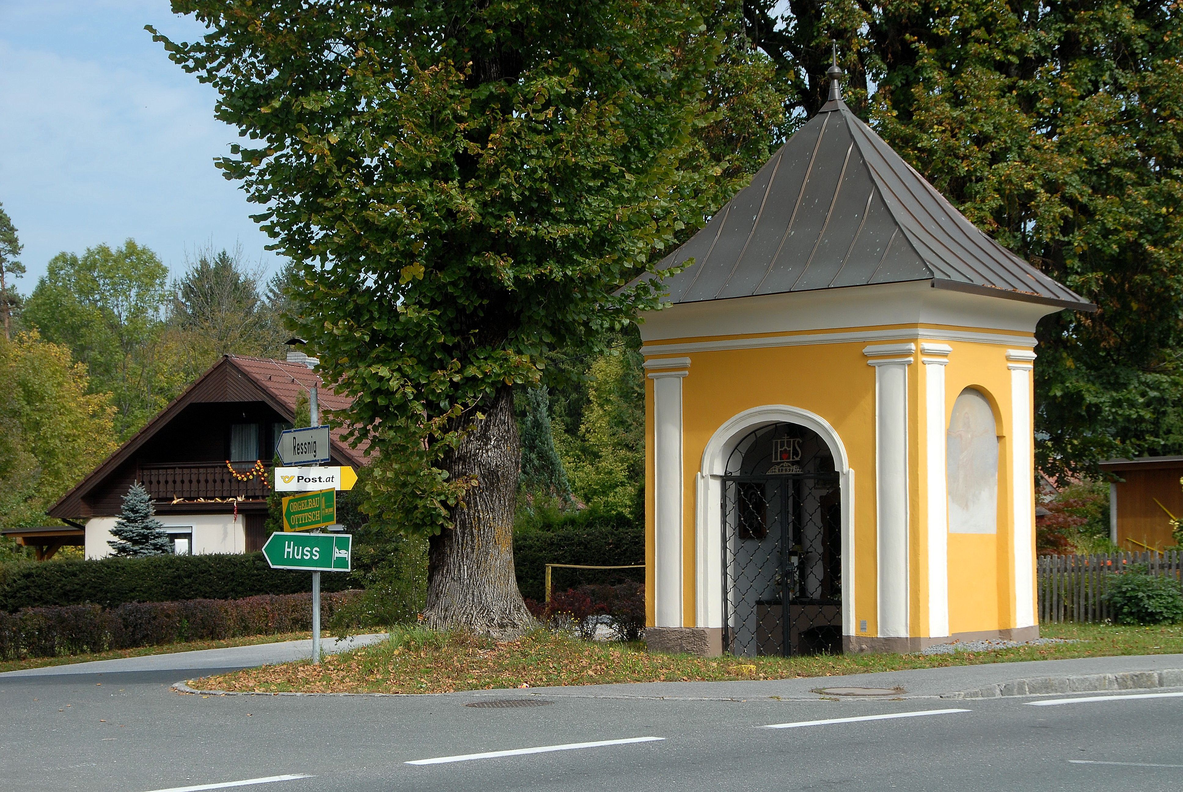 Historic road-chapel at Goertschach in the community Ferlach, district Klagenfurt-Land, Carinthia, Austria